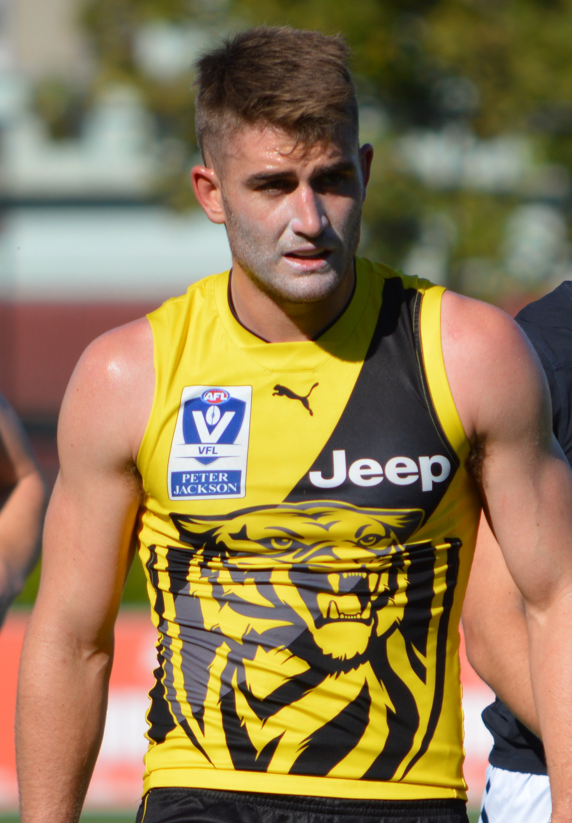 Anthony Miles with Richmond during a VFL practice match against the Northern Blues in March 2018